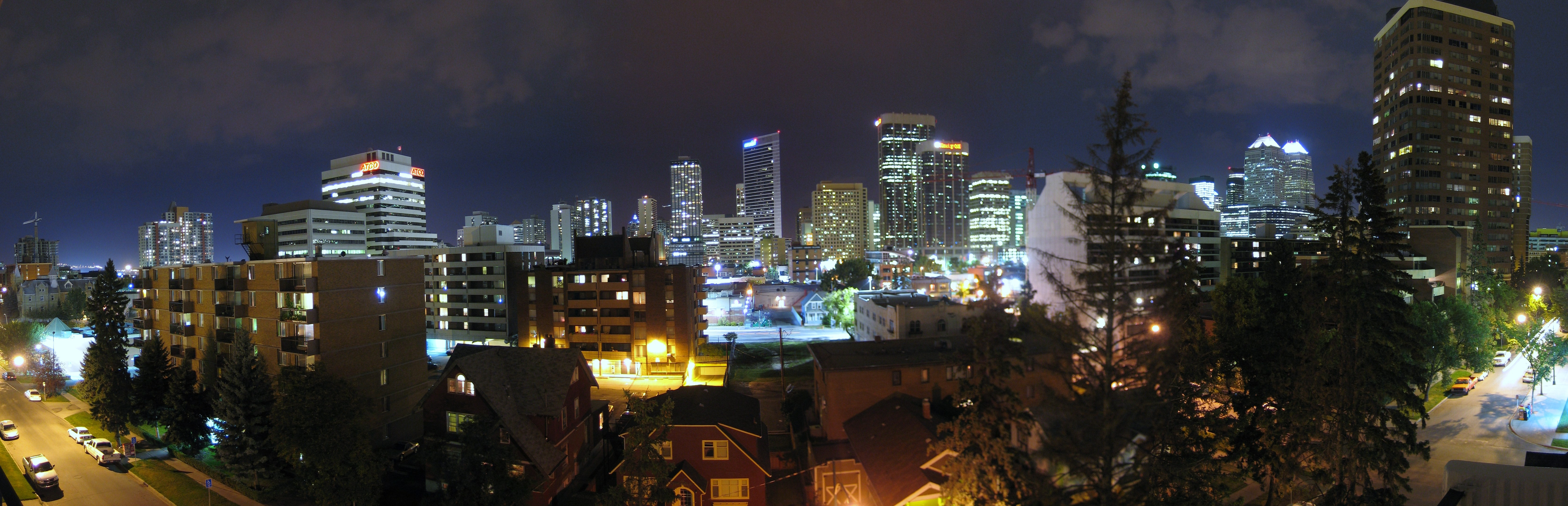 A night view of downtown Calgary, from 13th Ave SW